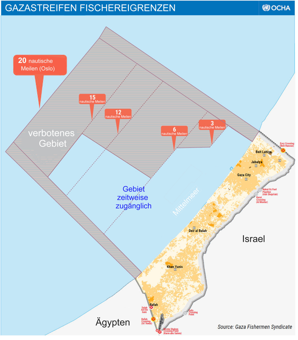 Fishing limits Gaza Okt. 2019